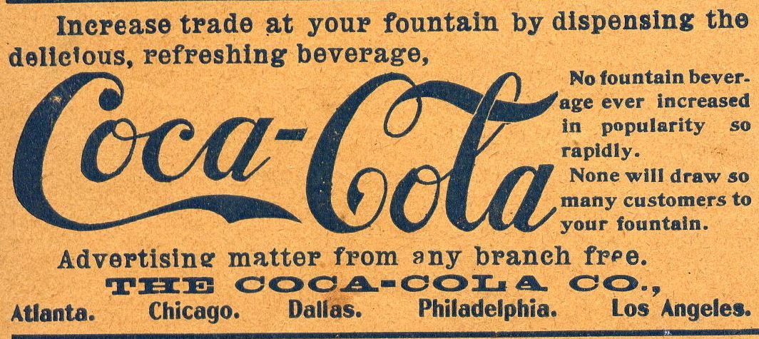 Coca-Cola advertisement on the cover of "American Druggist" Magazine, 22 October, 1900. Most of the cover is advertising.